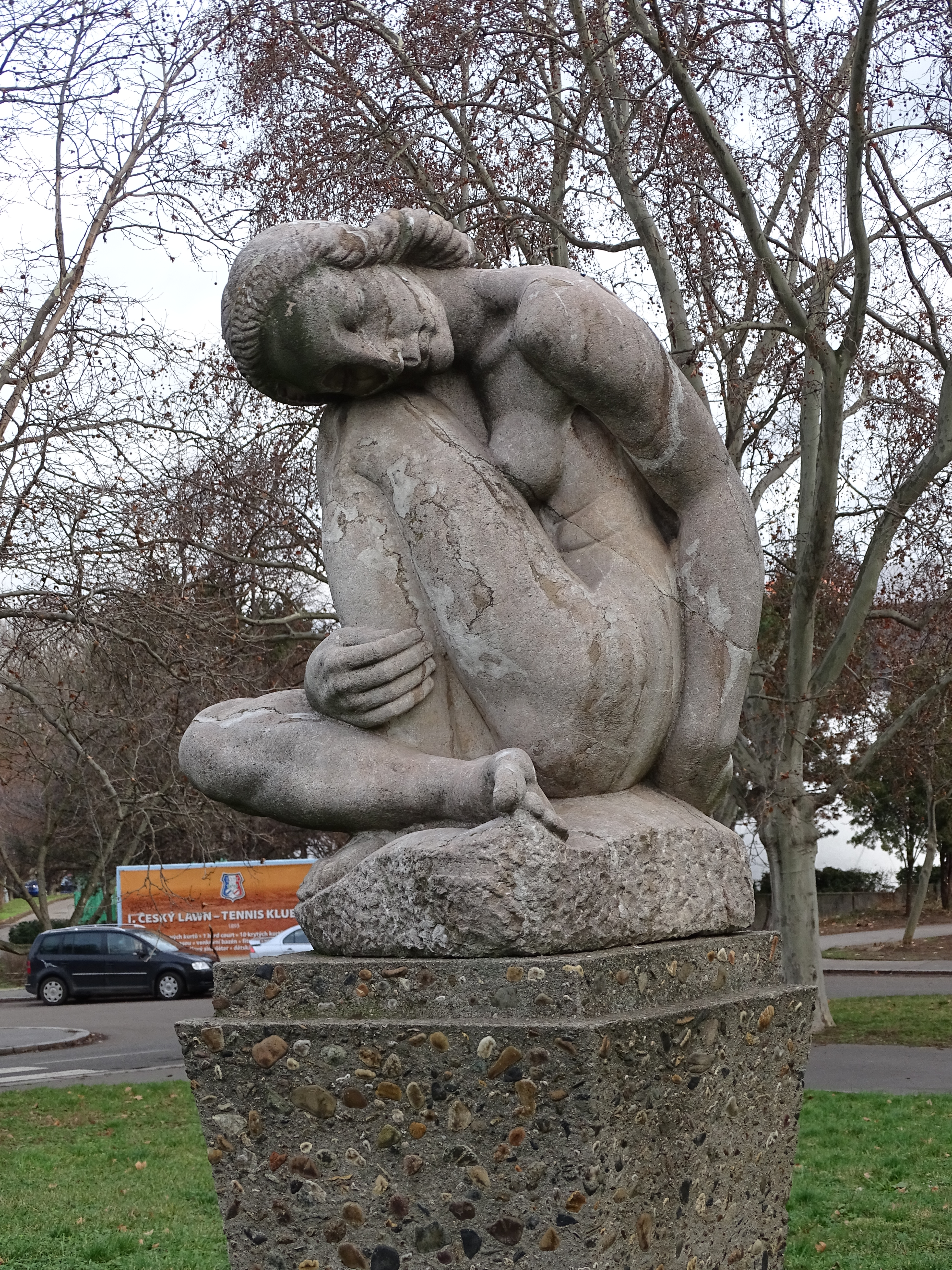 Prague-Holešovice, Czech Republic. Štvanice island, a statue of Sitting Girl.